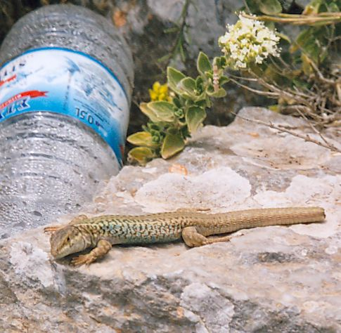 A male Erhard's wall lizard (Podarcis erhardii) in the ruins of Hellenic city on Mesa Vouno, Santorini. Some people have cheek to litter anything.